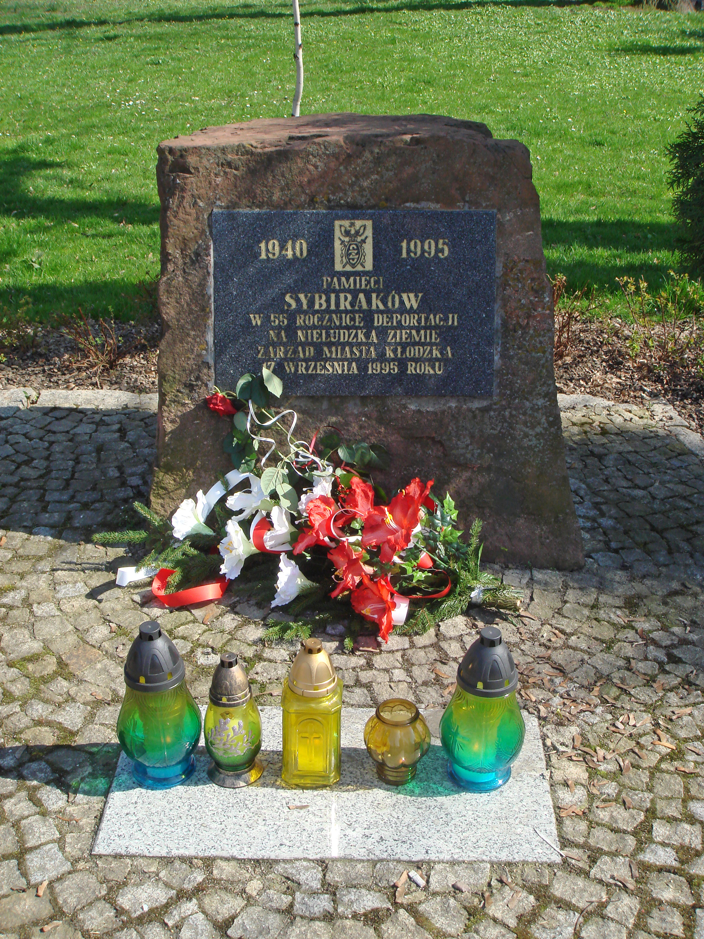 Monument in Kłodzko commemorating Polish deportees to Siberia (Lower Silesian Voivodeship, Poland).